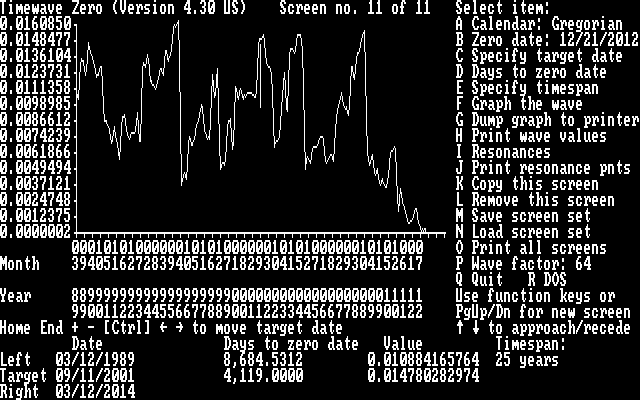 Screenshot of the Timewave Zero software graphing Terrence Mckenna's 'novelty wave' over a 25–year period. Higher points on the y axis represent instances of habitual trends in universal phenomena. Lower points indicate moments of increased novelty. The unconnected vertical line at the graph's midpoint indicates the location of the target date.